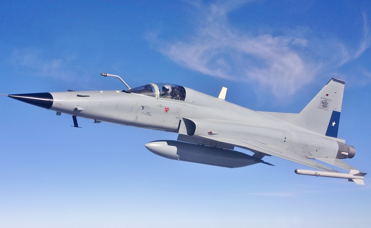 Chile Air Force Northrop F-5E Tigre III Lofting-2 (cropped)